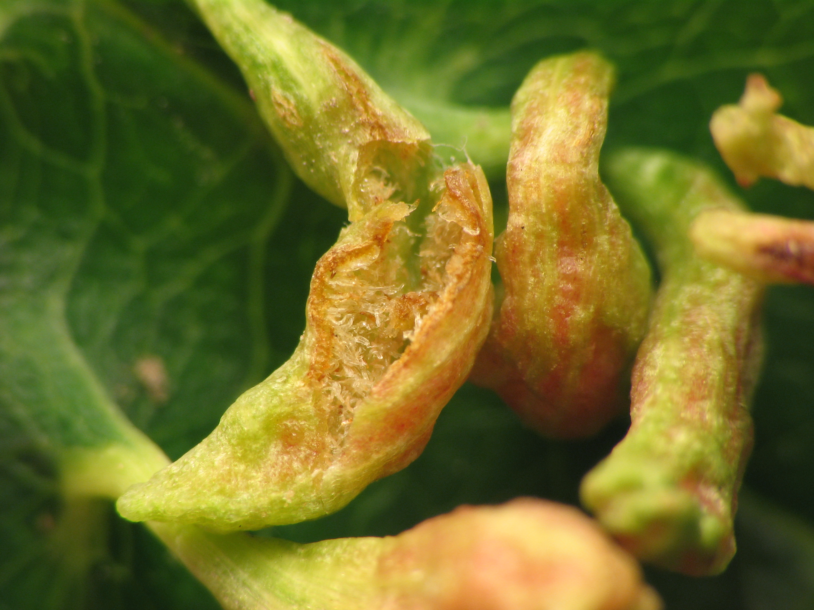 Galls made by Eriophyes cerasicrumena on cherry tree. Montgomery County, Pennsylvania, USA.